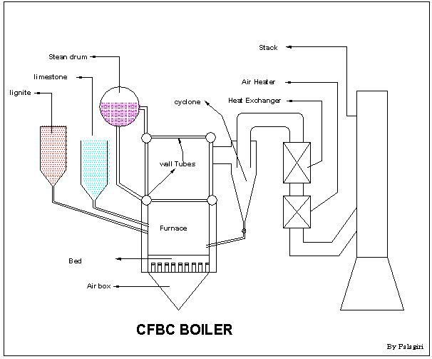 circulated fluidised bed combustion boiler